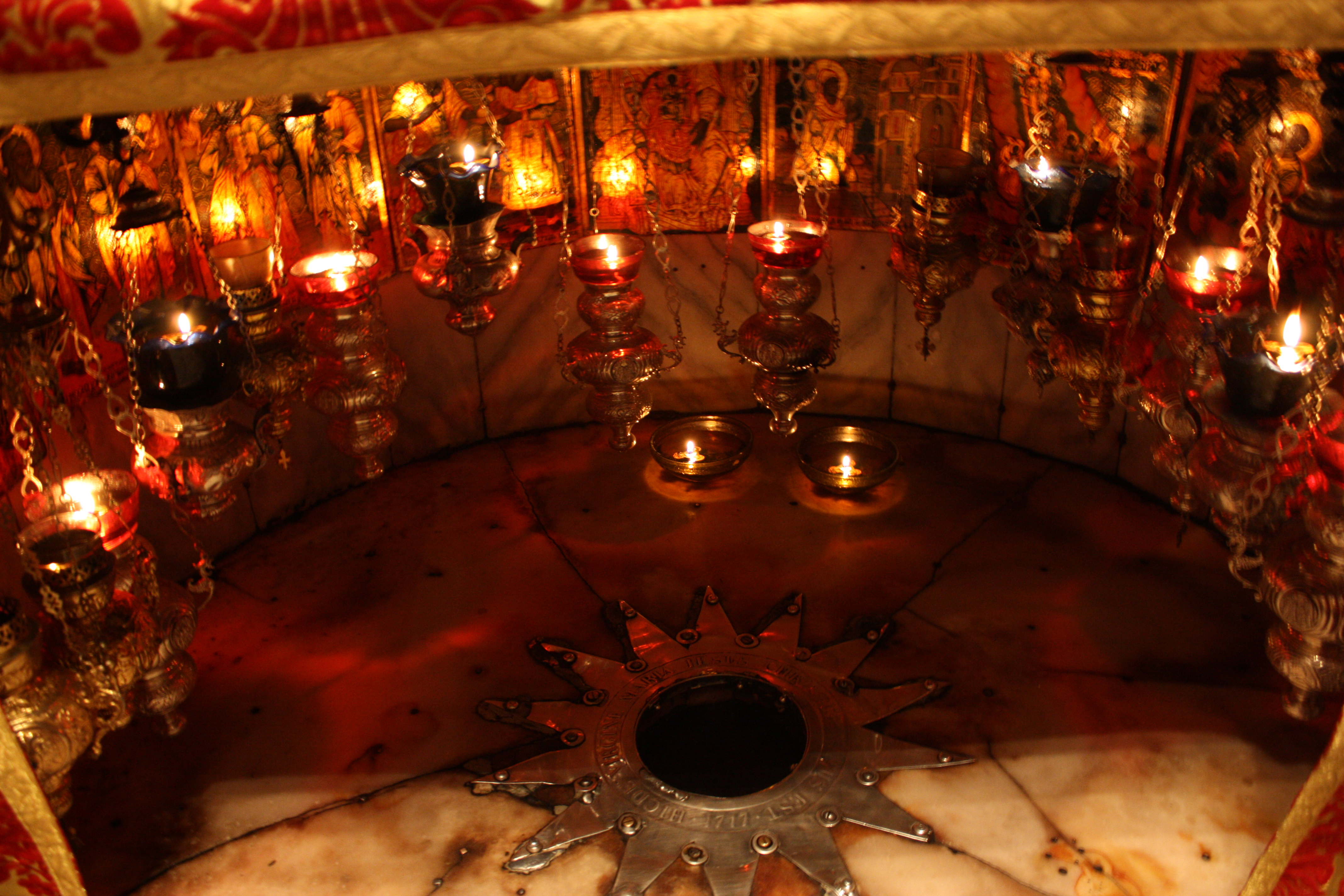 Star marking the birthplace of Jesus Christ in the Grotto of the Nativity.